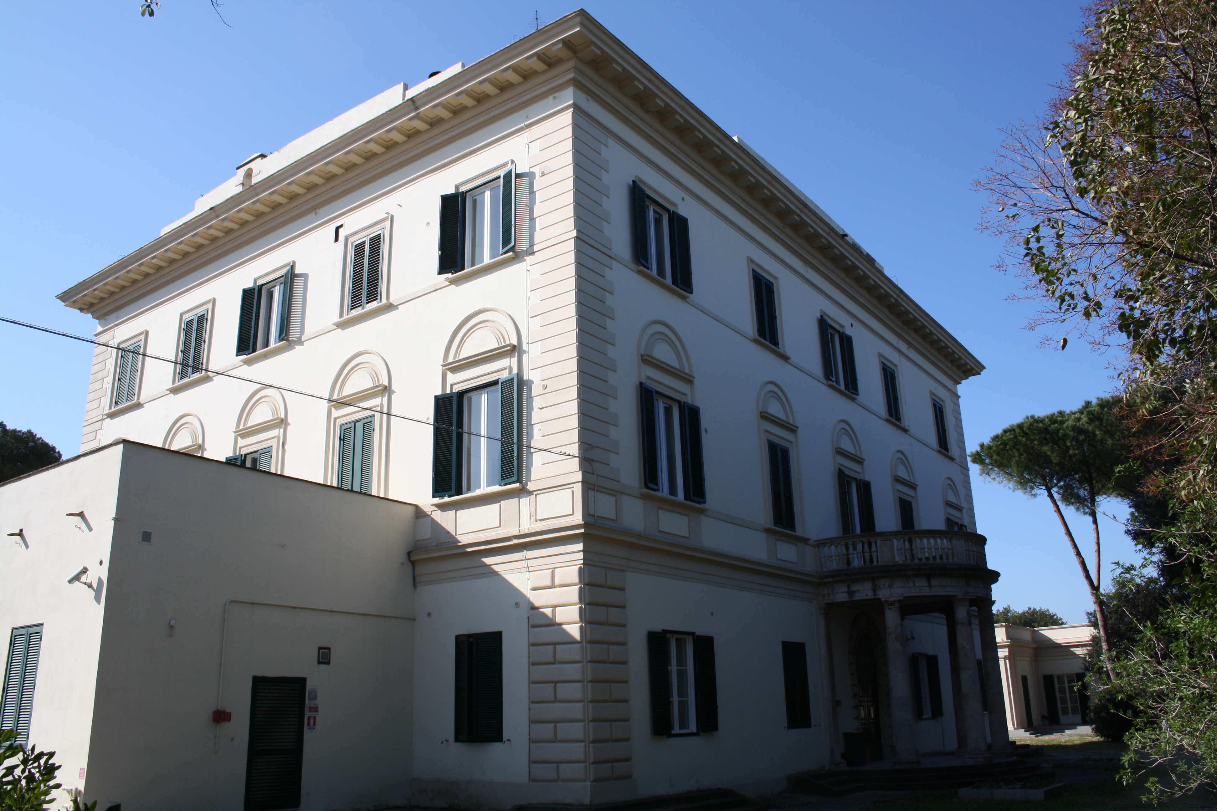 Italy, Livorno, Via dei Pensieri. Villa Letizia has been the site of the State Secondary School “Leonardo da Vinci” from October 1st, 1970 until August 31, 2000. Nowadays is the section of the University of Pisa concerning the course of Economy and Legislation of Logistic Systems.